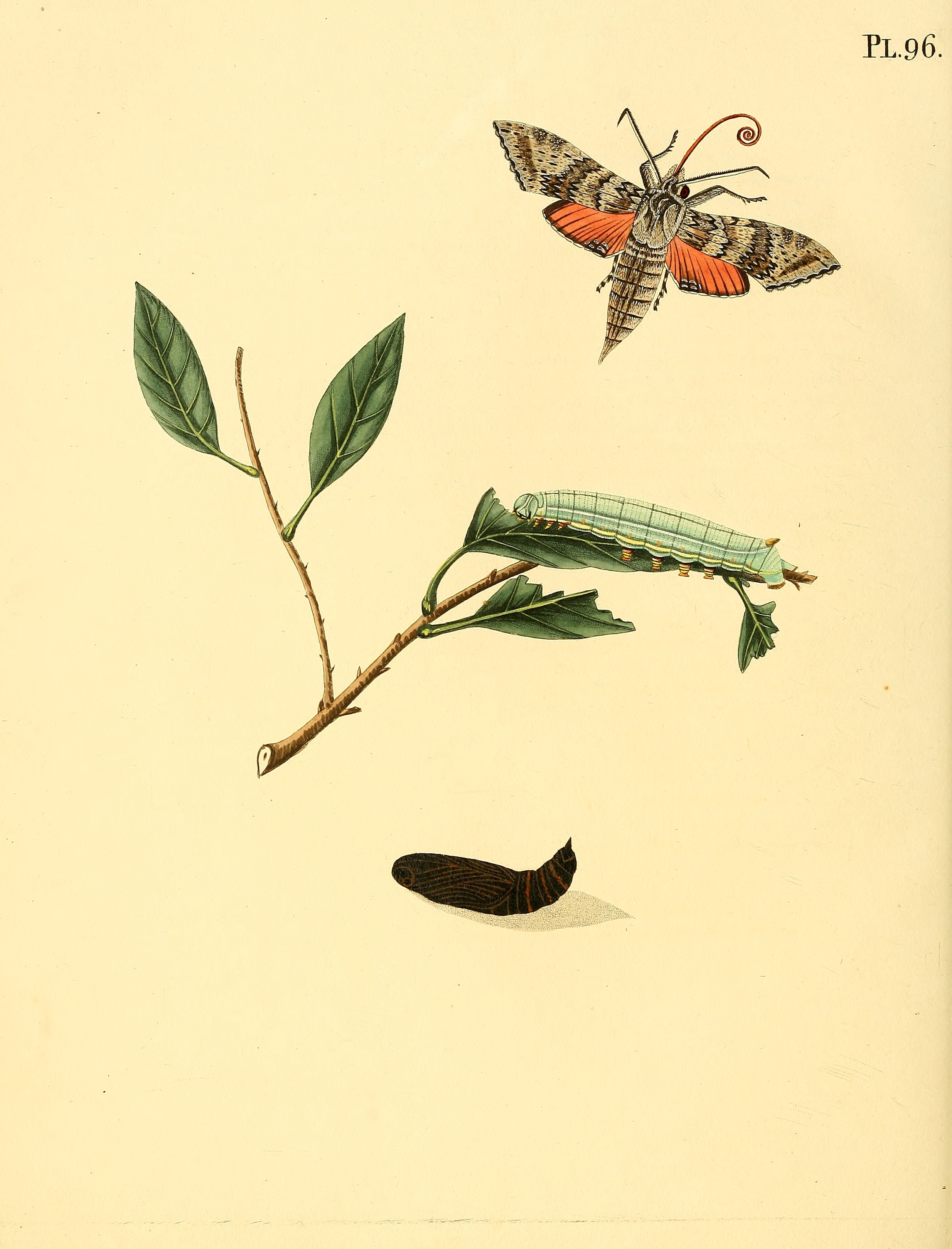 Illustration of: Erinnyis obscura (as syn. Sphinx picta)